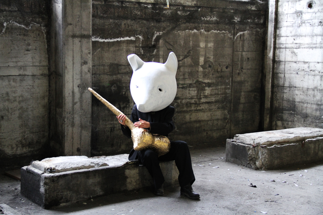 battlefields of cupiditas nina staehli